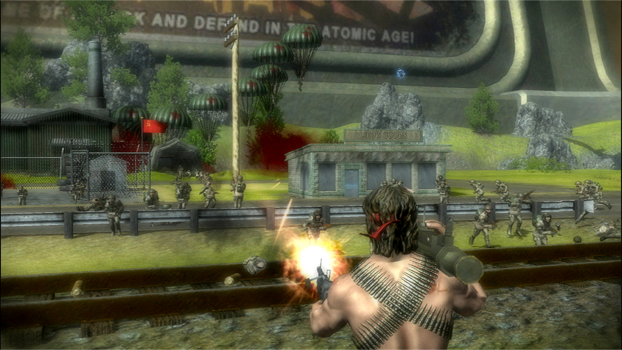 Screenshot "CommandoTheUltimateWeapon" for Toy Soldiers: Cold War video game